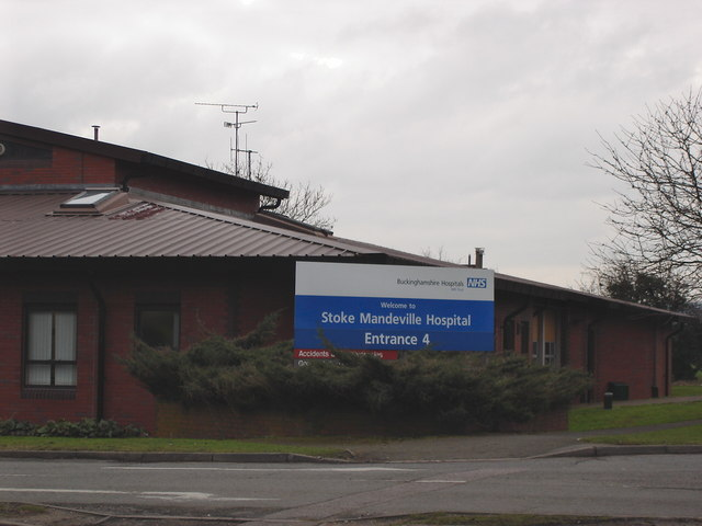 Stoke Mandeville Hospital.